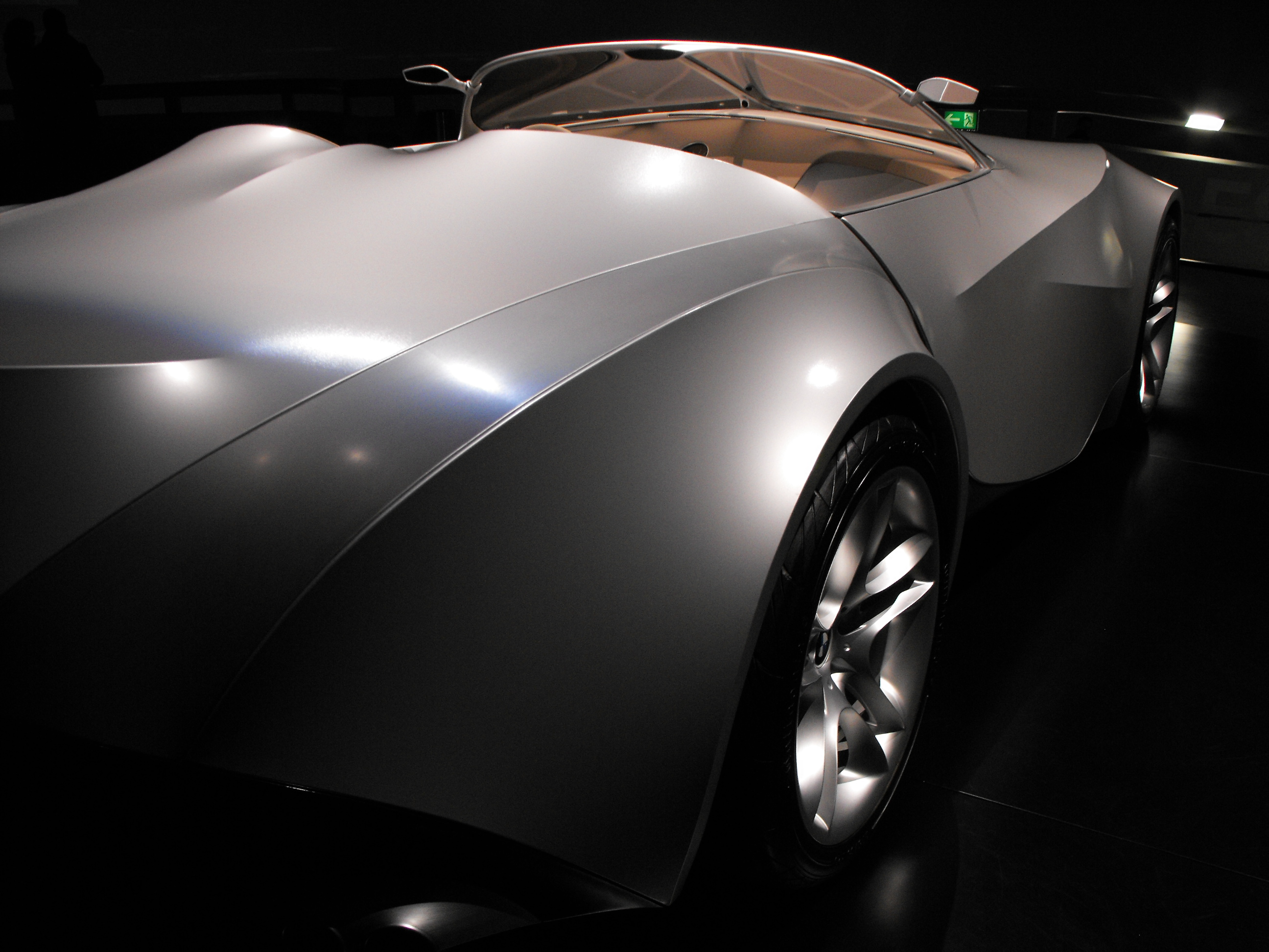 BMW Gina